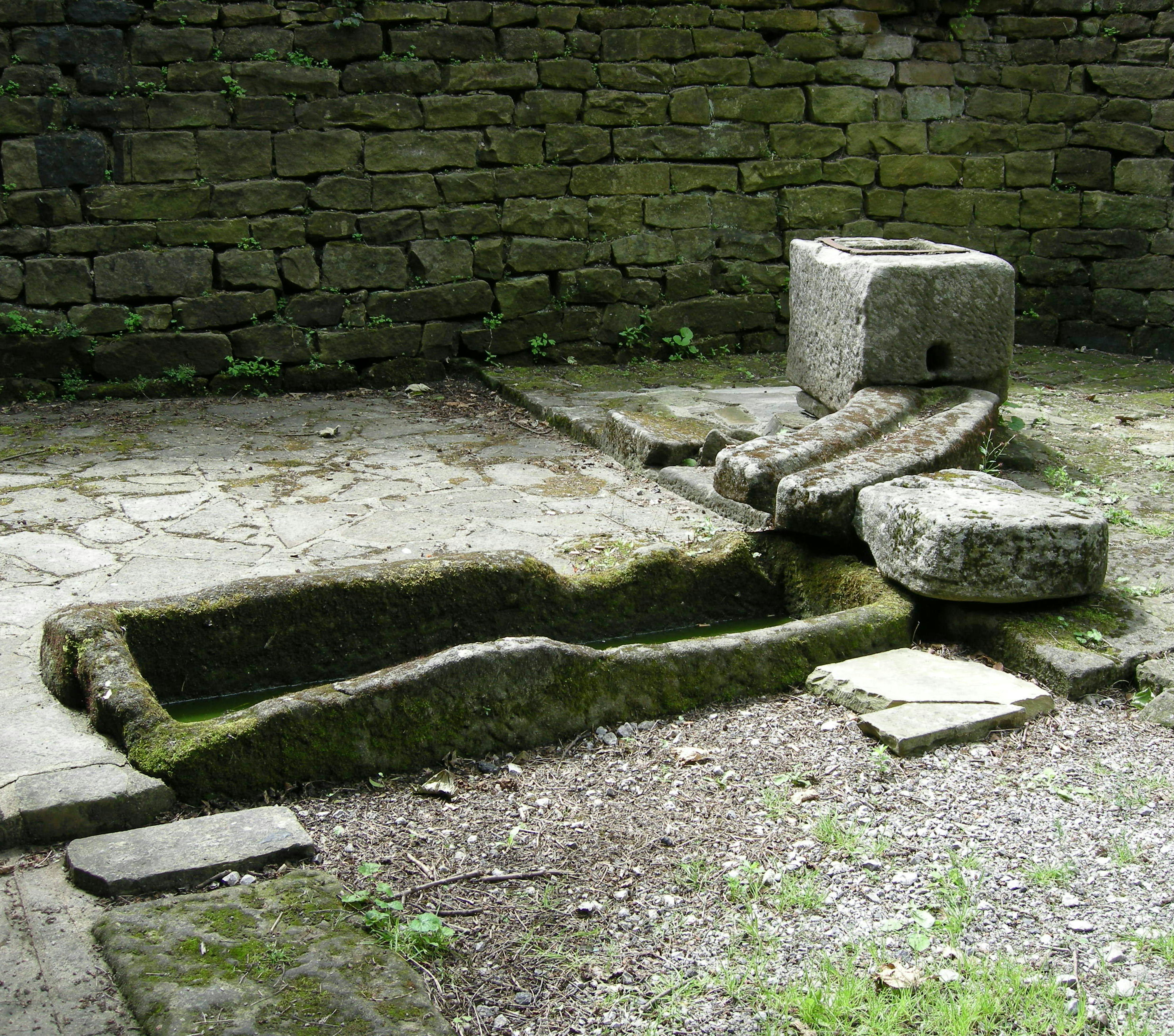 Bramhope town well, at foot of Church Hill, opposite St Giles church, Bramhope West Yorkshire, England. 53 53'12"N. 1 37'20"W.